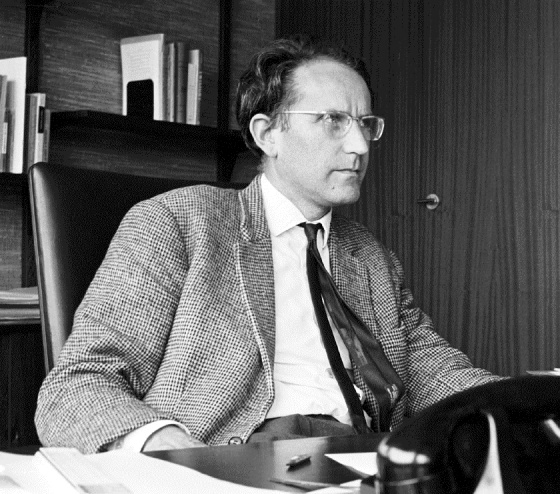 Marcel Golay (1927–2015), Swiss astronomer at Geneva Observatory. Image taken in 1966 at his office in Sauverny.